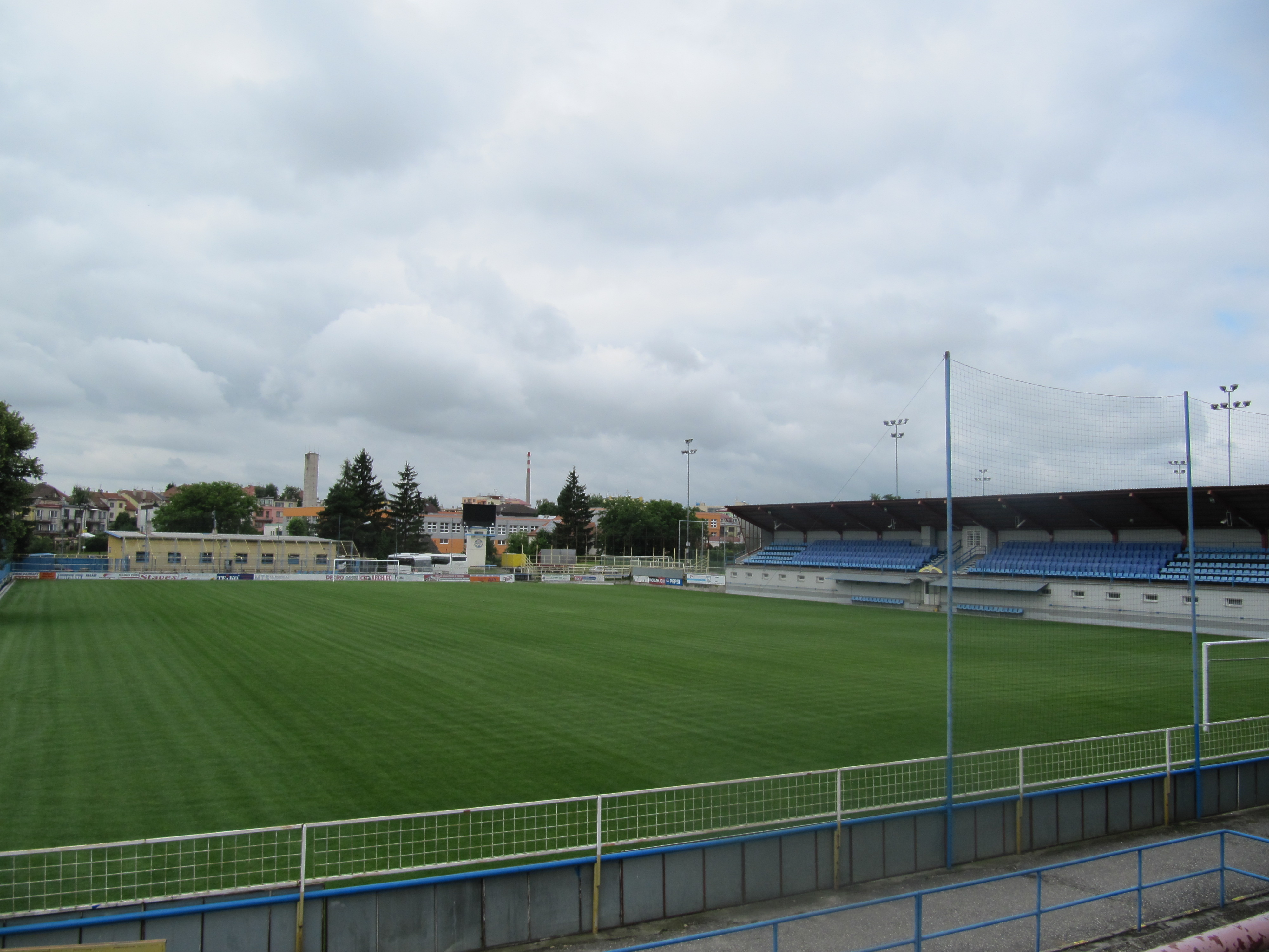 Staré Město in Uherské Hradiště District, Czech Republic. Football stadium Širůch.